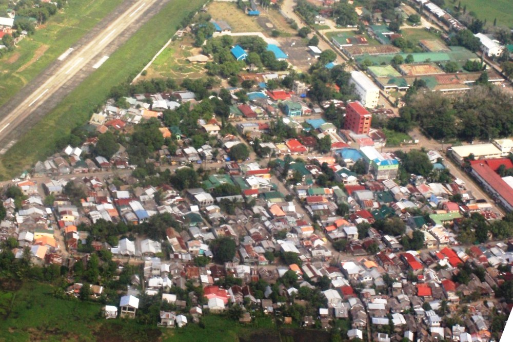 Aerial shot of Catarman, Northern Samar, Philippines.